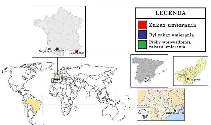 Based on Image:Prohibition of death around the world.jpg